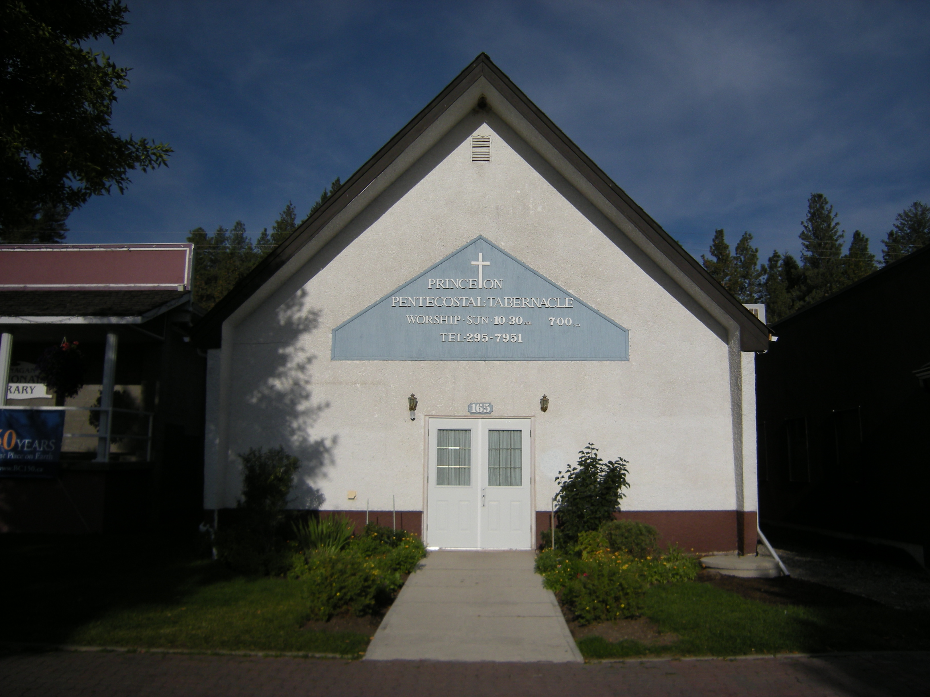 Princeton Pentecostal Tabernacle, Vermilion Avenue, Princeton, British Columbia.